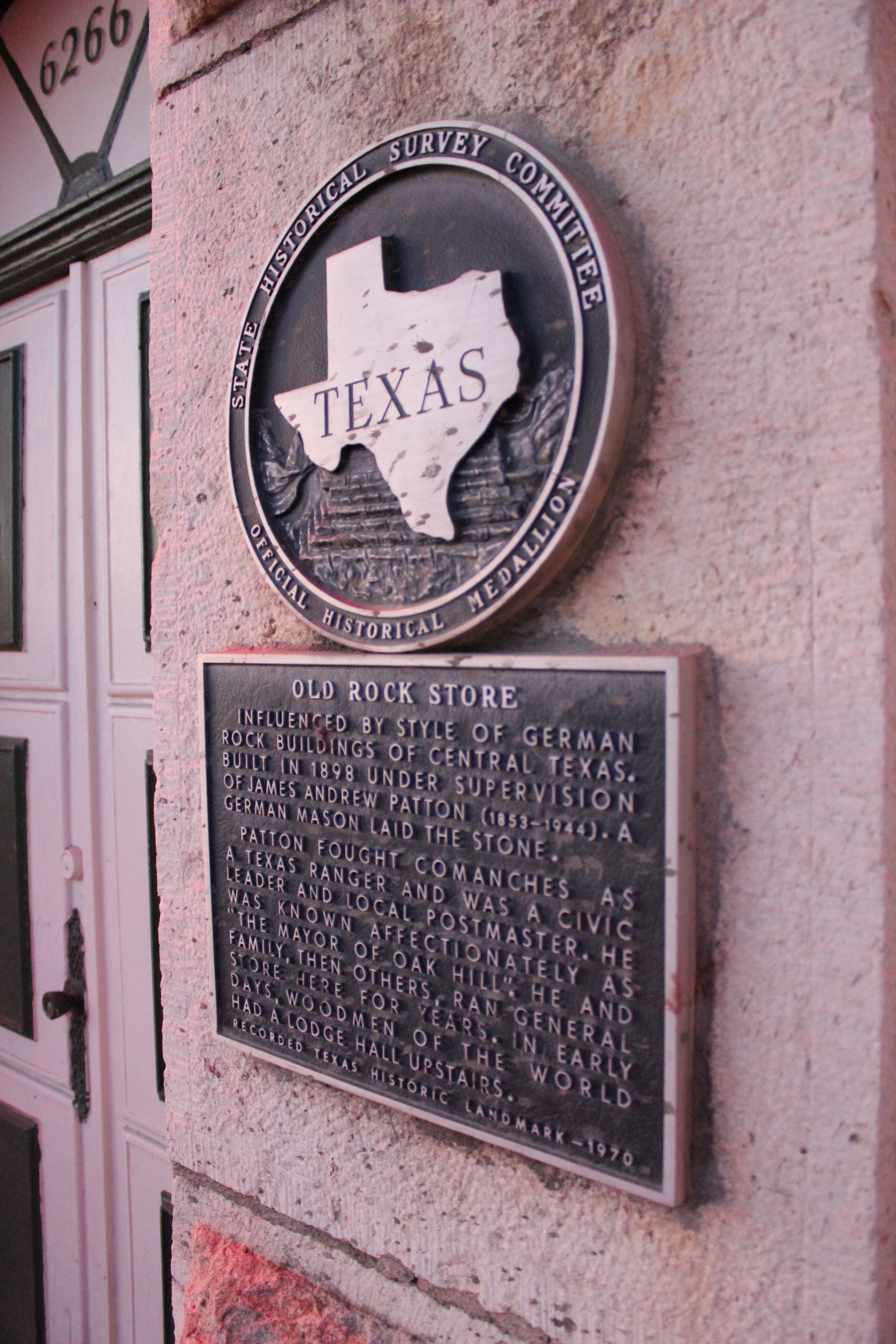 Influenced by the style of early German rock buildings in central Texas, James Andrew Patton (1853-1944) supervised the construction of this building in 1898. A German mason laid the stone. Patton fought Comanches as a Texas Ranger and was a civic leader and local postmaster. He was known affectionately as "the mayor of Oak Hill." He and his family, followed by others, operated a general store here for many years. The building also housed a local Woodmen of the World lodge hall on the second floor. Recorded Texas Historic Landmark - 1970 Now Austin Pizza Garden, home of the best pizza in Austin and mybe the state.